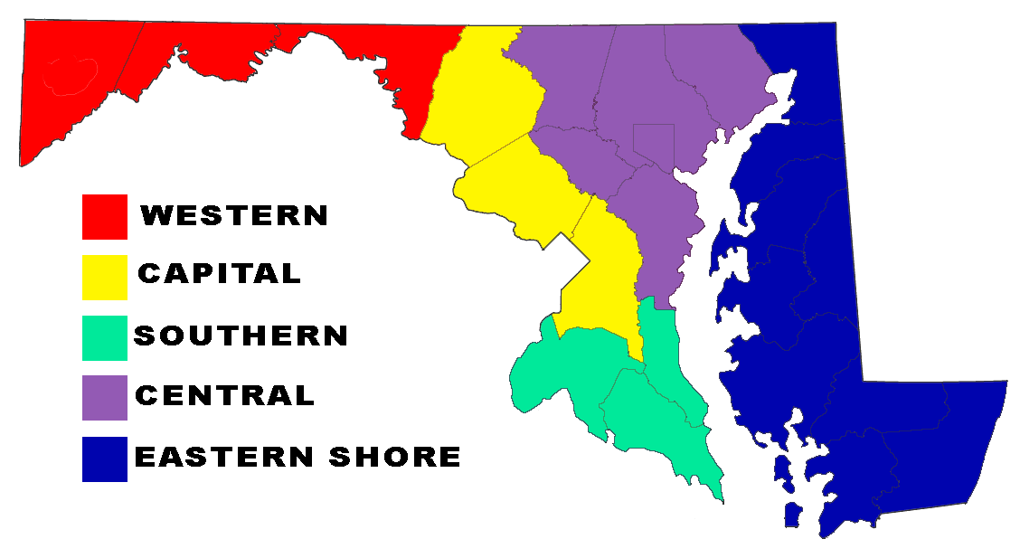 colored map of maryland regions